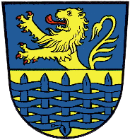 Coat of arms of Hage (Lower Saxony, Germany)